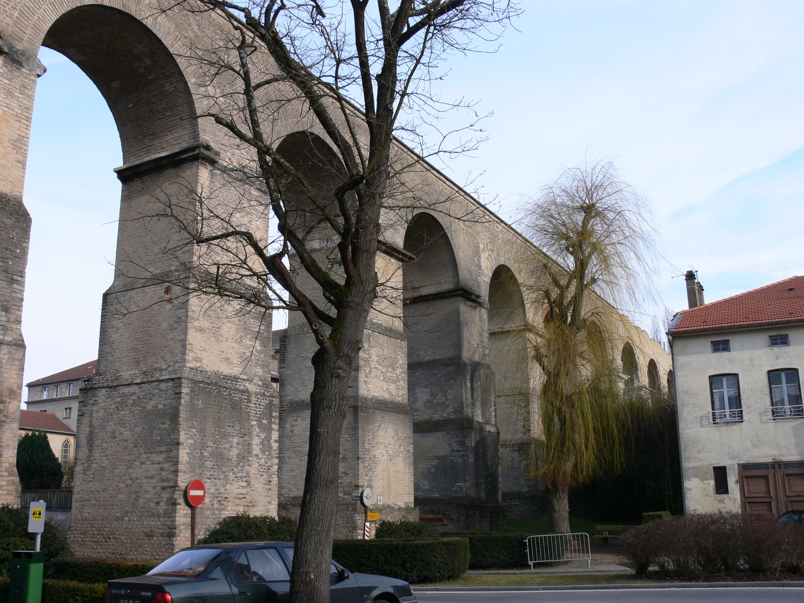 Roman aqueduc from Gorze to Metz - outdoor view in Jouy-aux-Arches